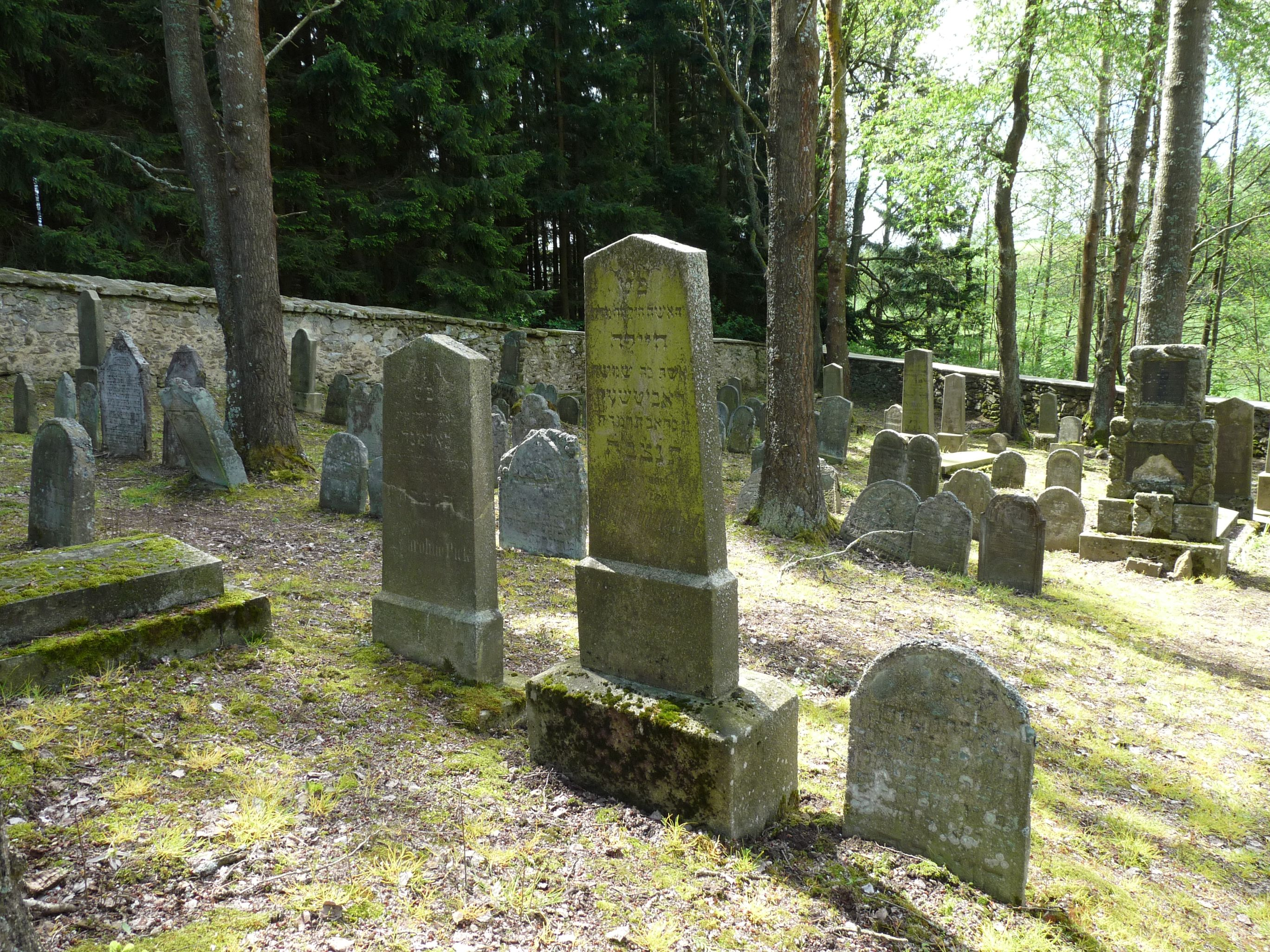 Jewish cemetery in the town of Horní Cerekev, Pelhřimov District, Vysočina Region, Czech Republic.